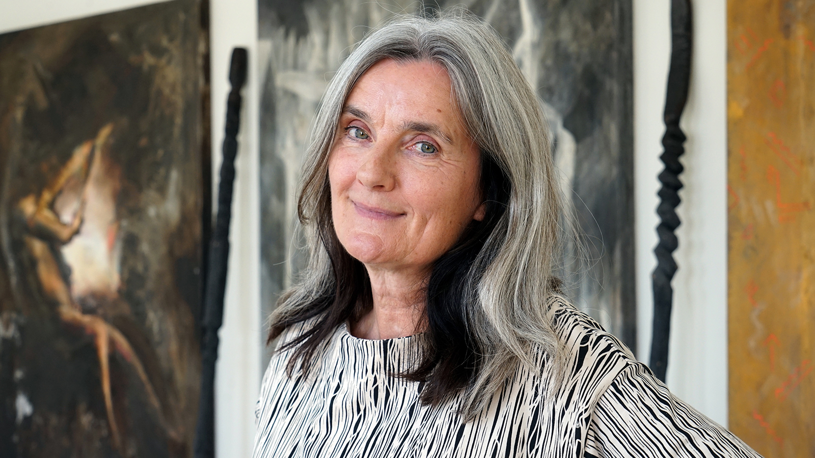 Nina Sten-Knudsen - Danish painter; from exhibition at Kunsthuset Palæfløjen (Roskilde Art Association) in Roskilde, Denmark - August 2018